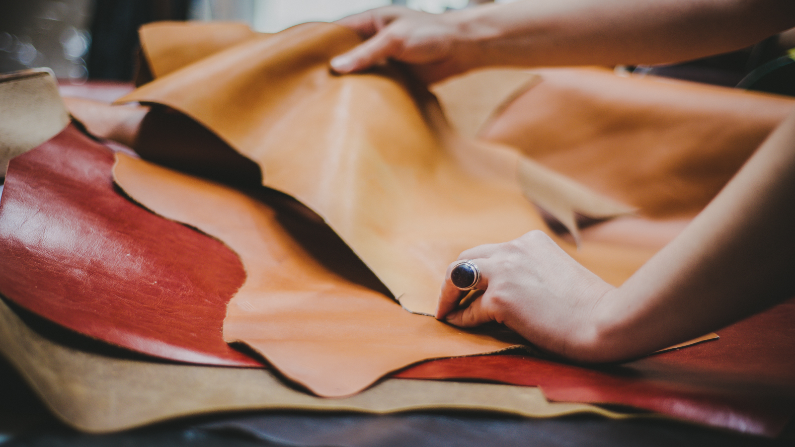 Shoemaking: choosing materials